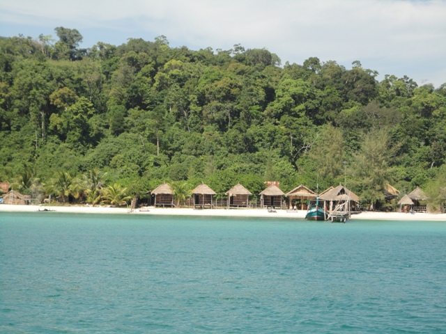 Sok San Bungalows koh Rong island Cambodia.